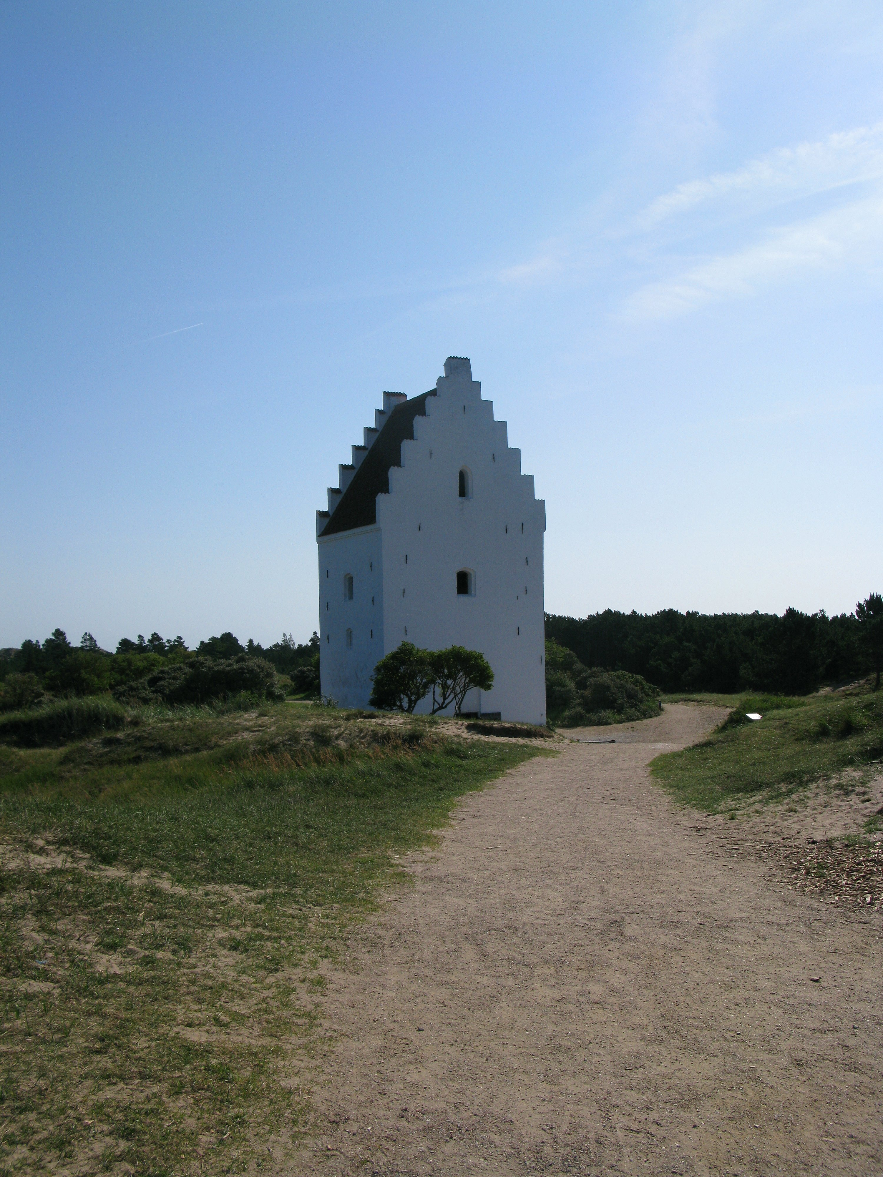 Old Church of Skagen (Northern Denmark) - silt up with sand